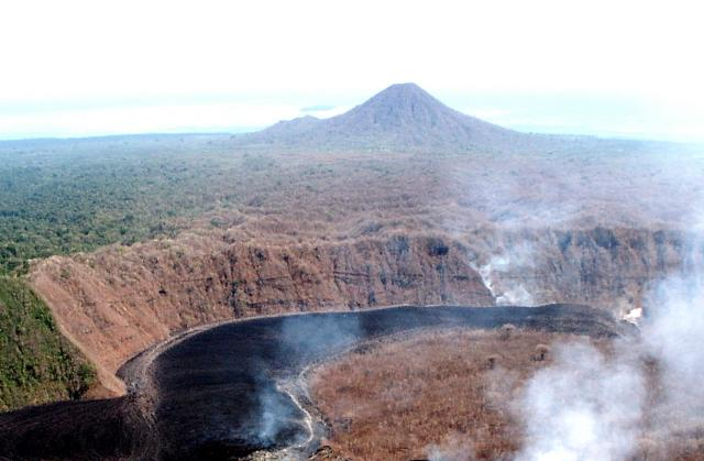 Lolo volcano at PNG